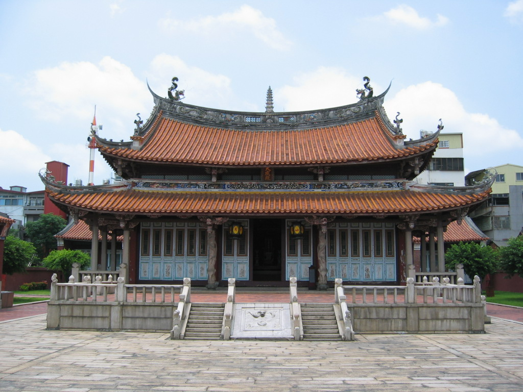 Temple of Confucius in Changhua Taken by mingwangx at July 23, 2006. 彰化孔廟大成殿，mingwangx攝於2006年7月23日。